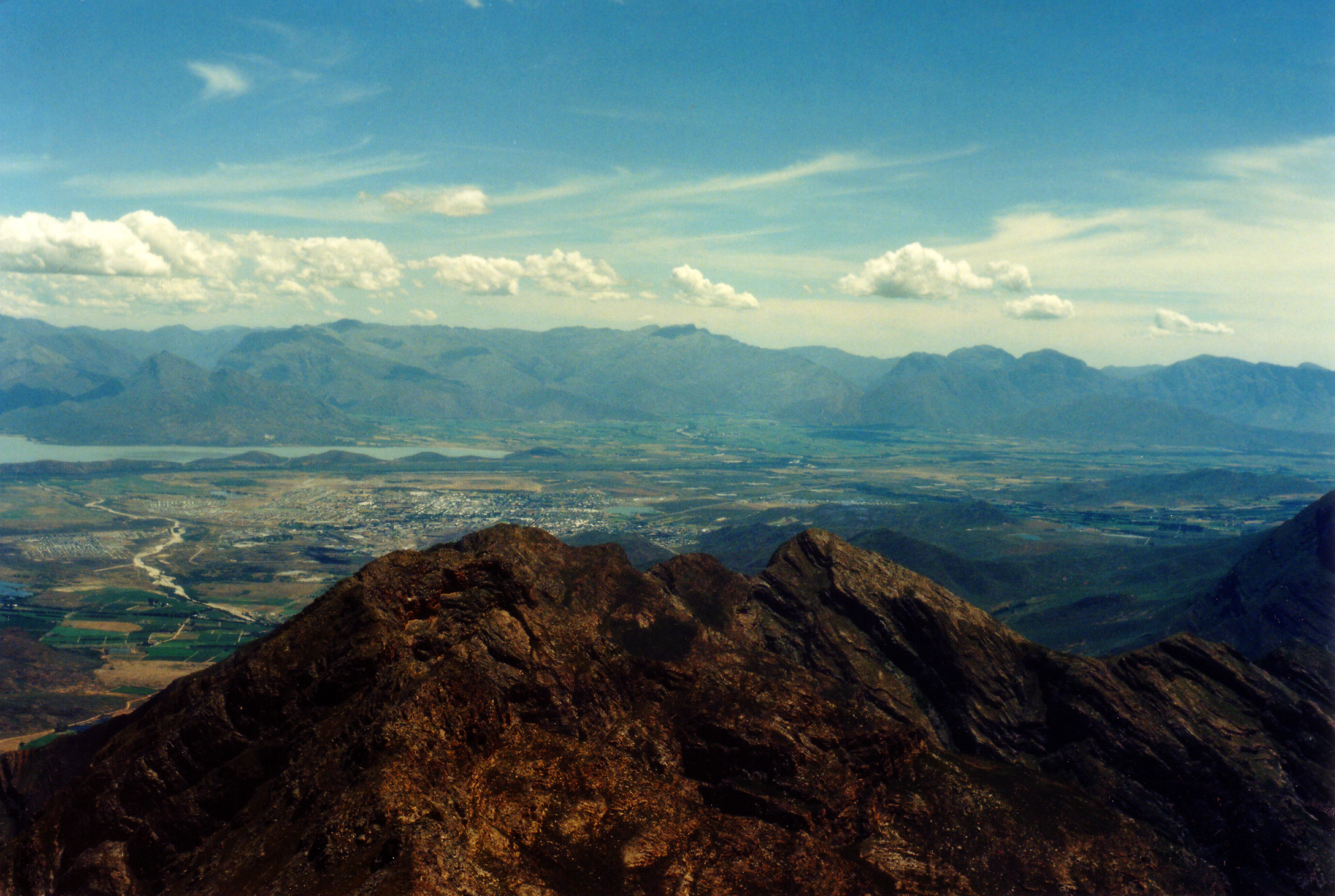 Taken by myself, Andres de Wet